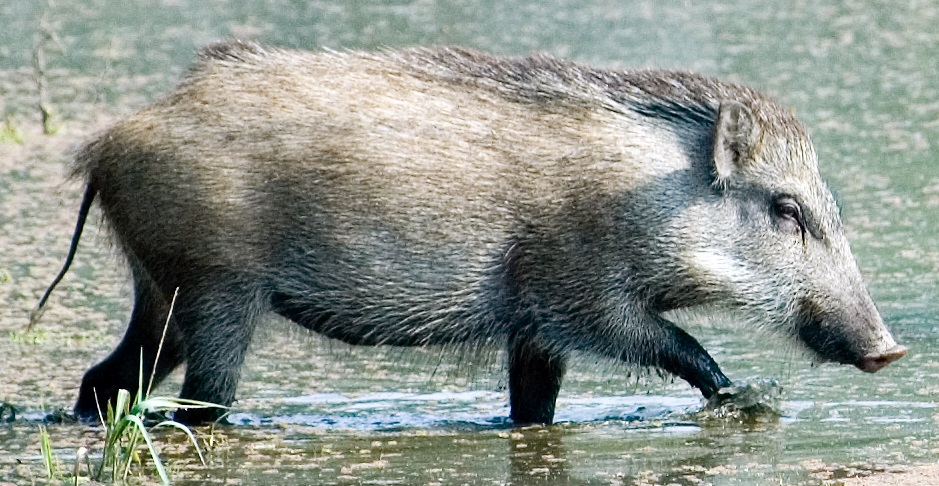 Wild boar, Bharatpur, Rajasthan, India.